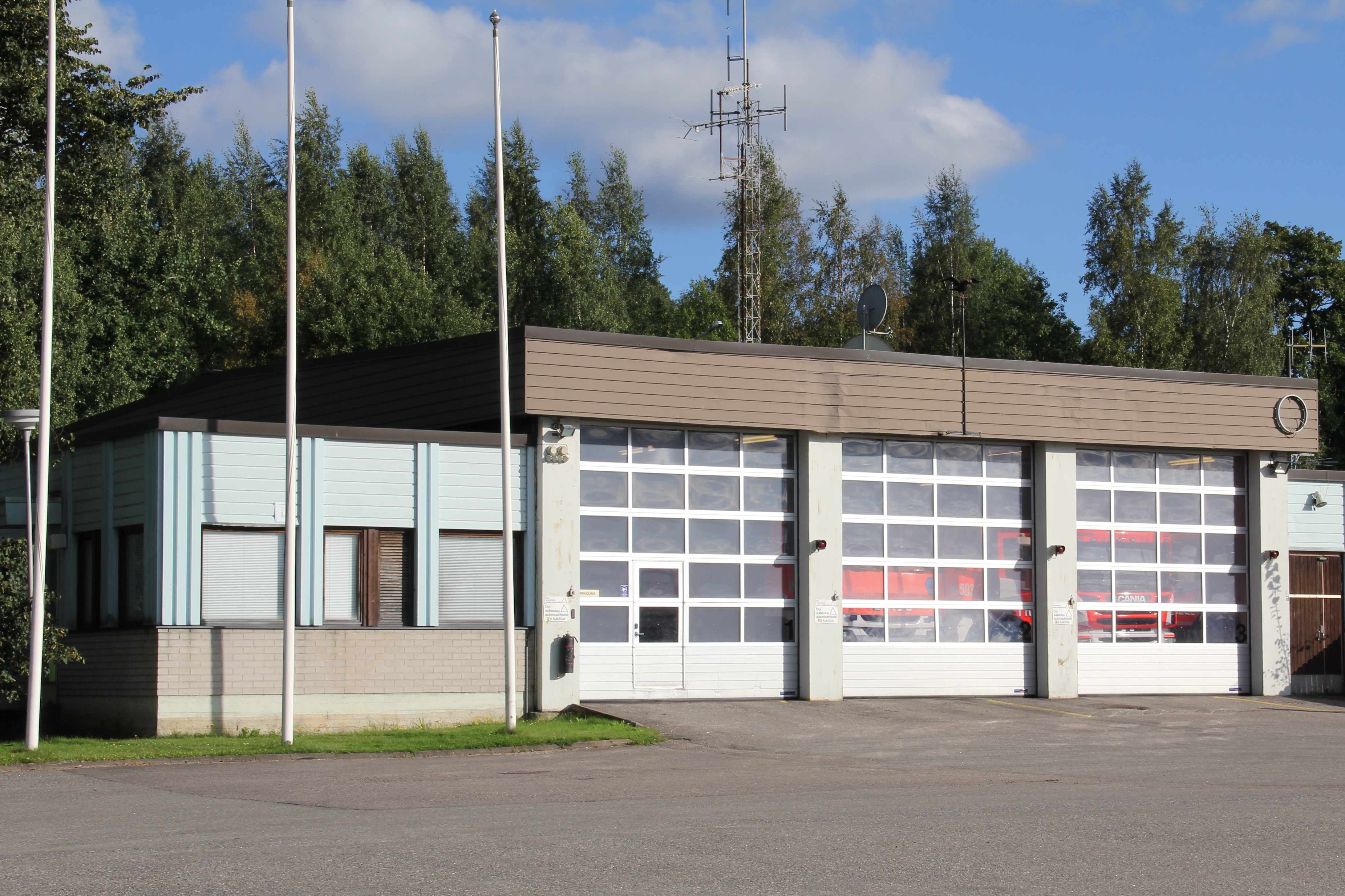 Malmi Rescue Station, at Helsinki-Malmi airport, Helsinki, Finland.